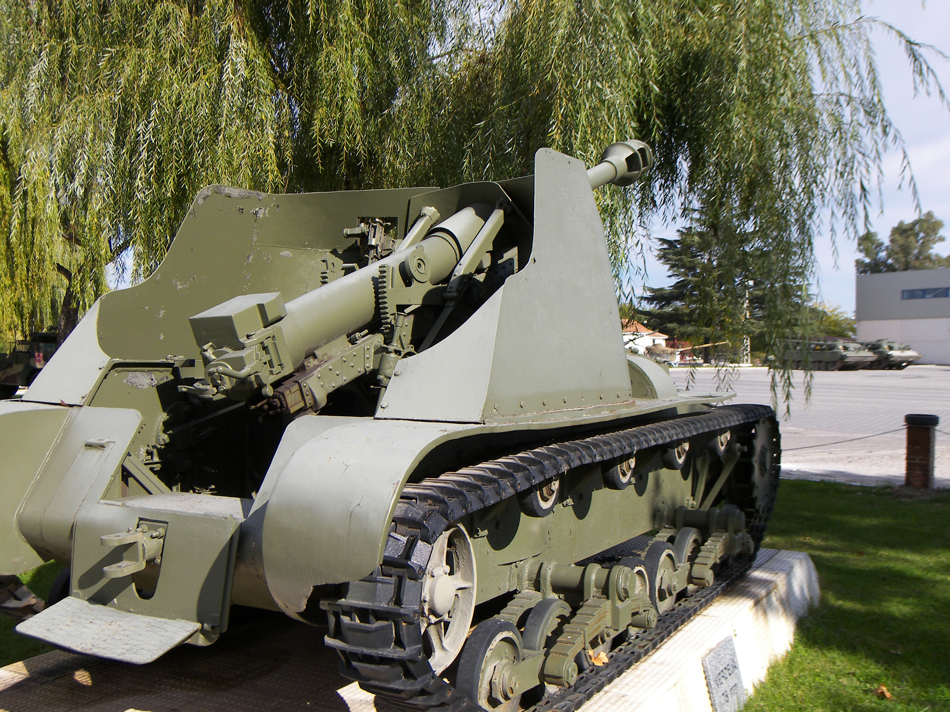 View of the 75mm gun of the Verdeja 75mm Self Propelled Howitzer